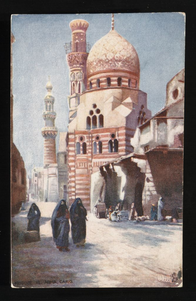 People in full dress, walking down a dirt street in front of a mosque